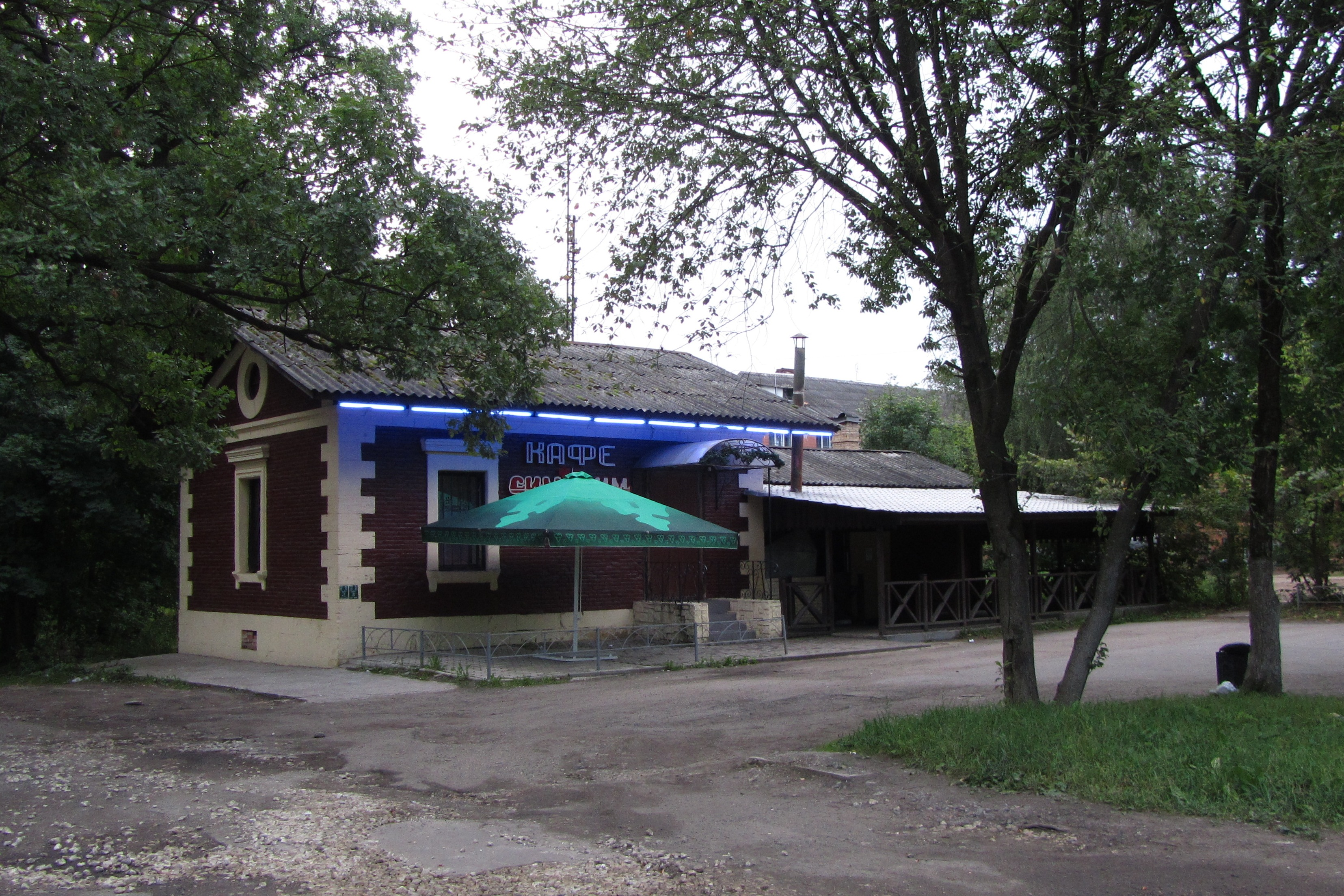 Guardhouse No 4, Gatchina, Russia